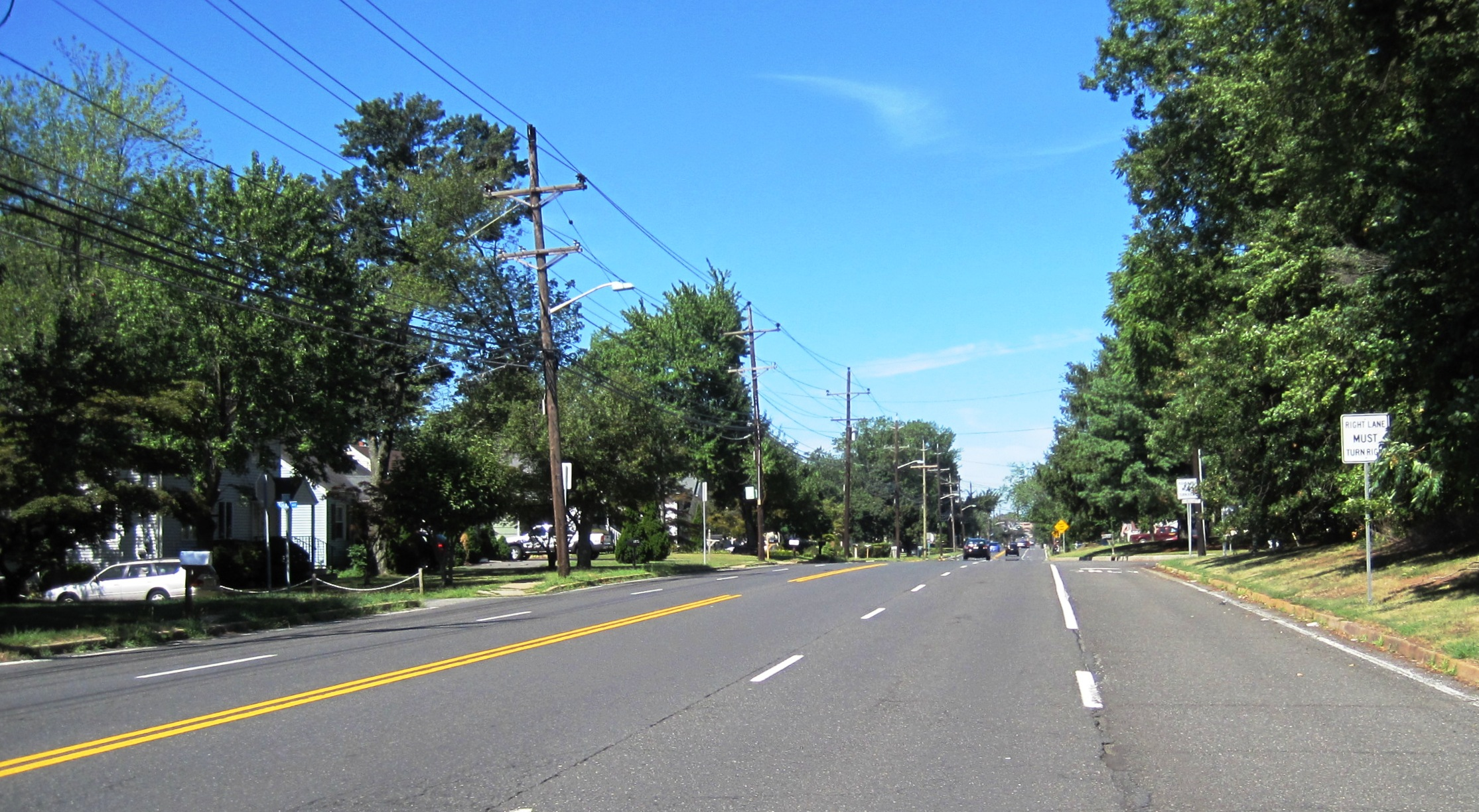 Photo of Finderne, New Jersey, a census designated place within Bridgewater Township. Photo taken along westbound East Main Street (County Route 612) at Mt. Pleasant Avenue.